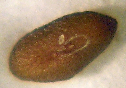 The seed of Plantago major. Moscow region, Russia.